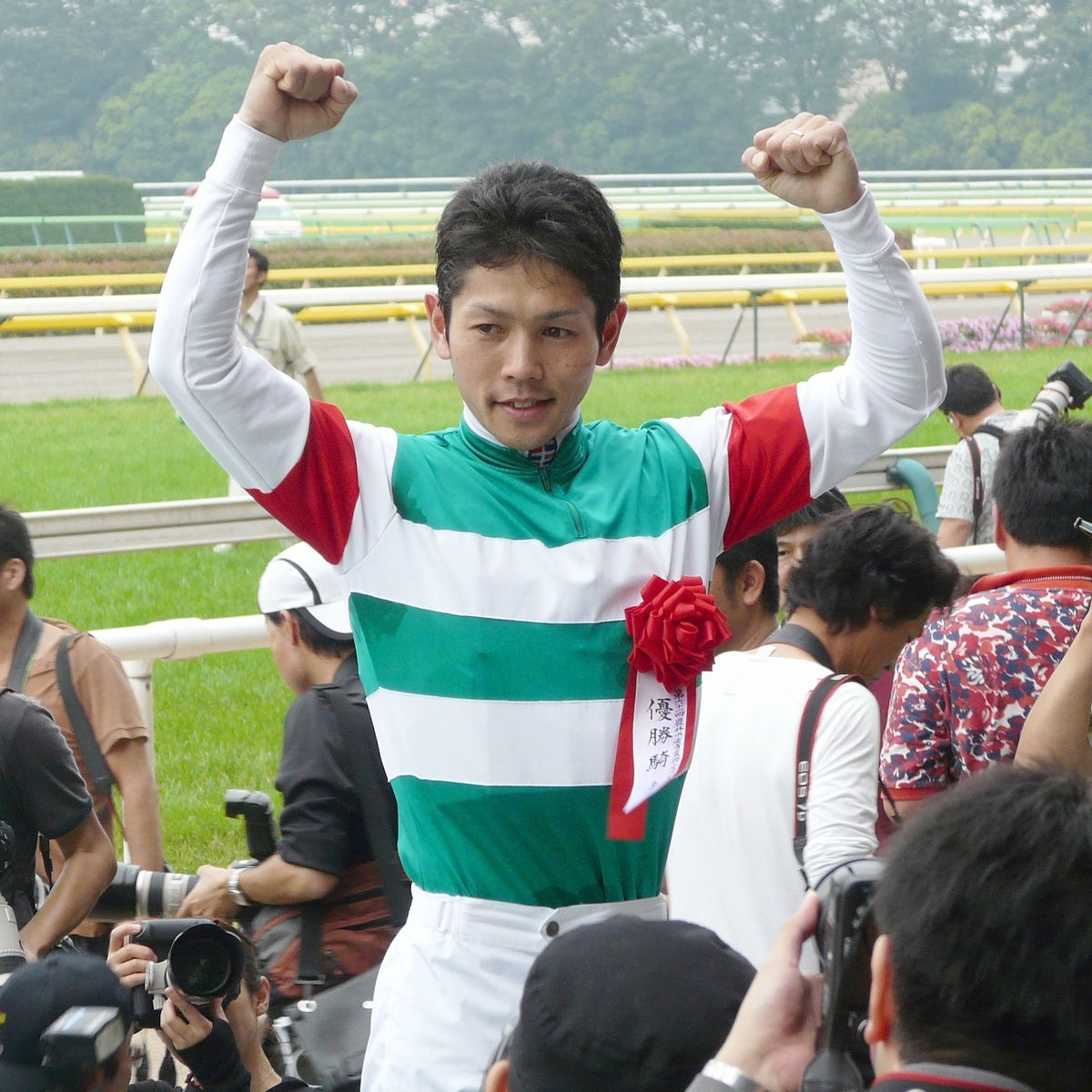 Keita-Tosaki20110605